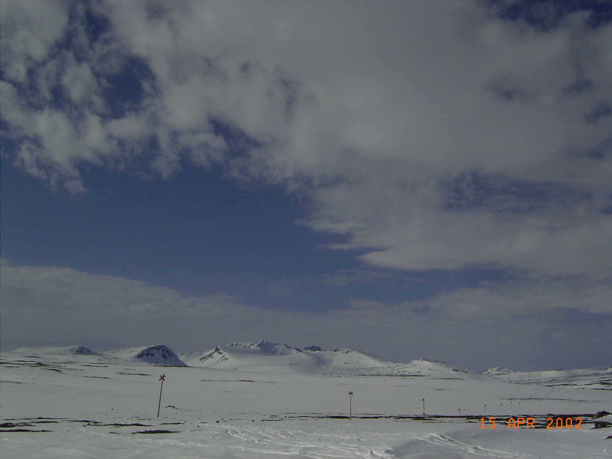 Sylane mountains seen from South East. Photo: Bernt Marius Johnsen.